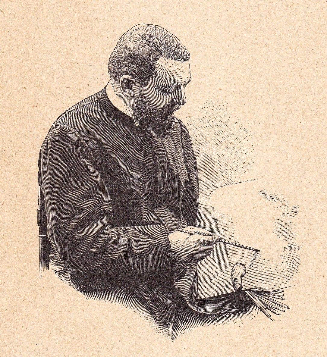 Henri Gervex (1852-1929), French painter